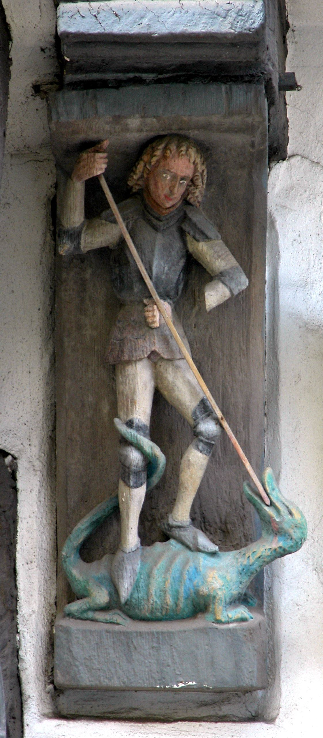 Braunschweig, Germany: St. George slays the dragon, detail of the house “Ritter St. Georg” (Knight St. George).